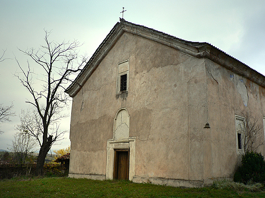 The church "Saint Nikolay" in Golema Rakovitsa village, Bulgaria